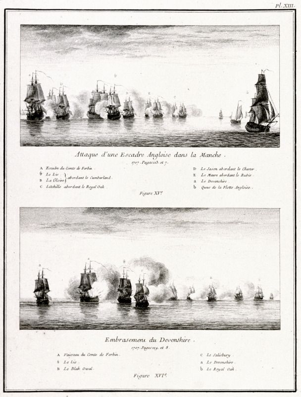 Attaque d'une Escadre Angloise dans la Manche. 1707. Pages 123 et 7. A. Escadre du Comte de Forbin. Le Lis La Gloire, abordant le Cumberland C.L. Achille abordant le Royal Oak D. Le Jason abordant le Chester E. Le Maure abordant le Rubis a Le Devonshire b. Queue de la Flotte Angloise. Figure XVe'. Pl.XIII.